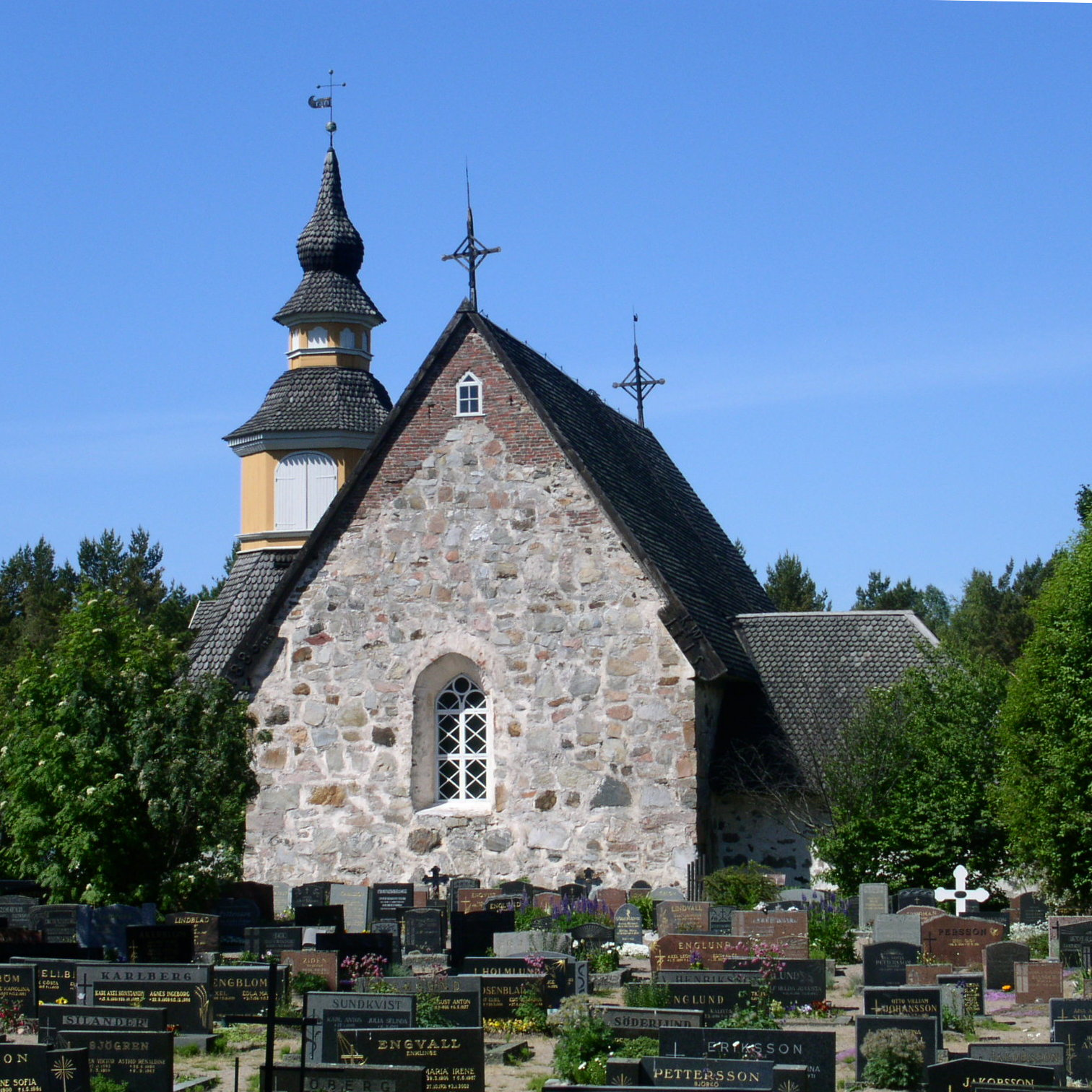 Kumlinge church, Åland, east side